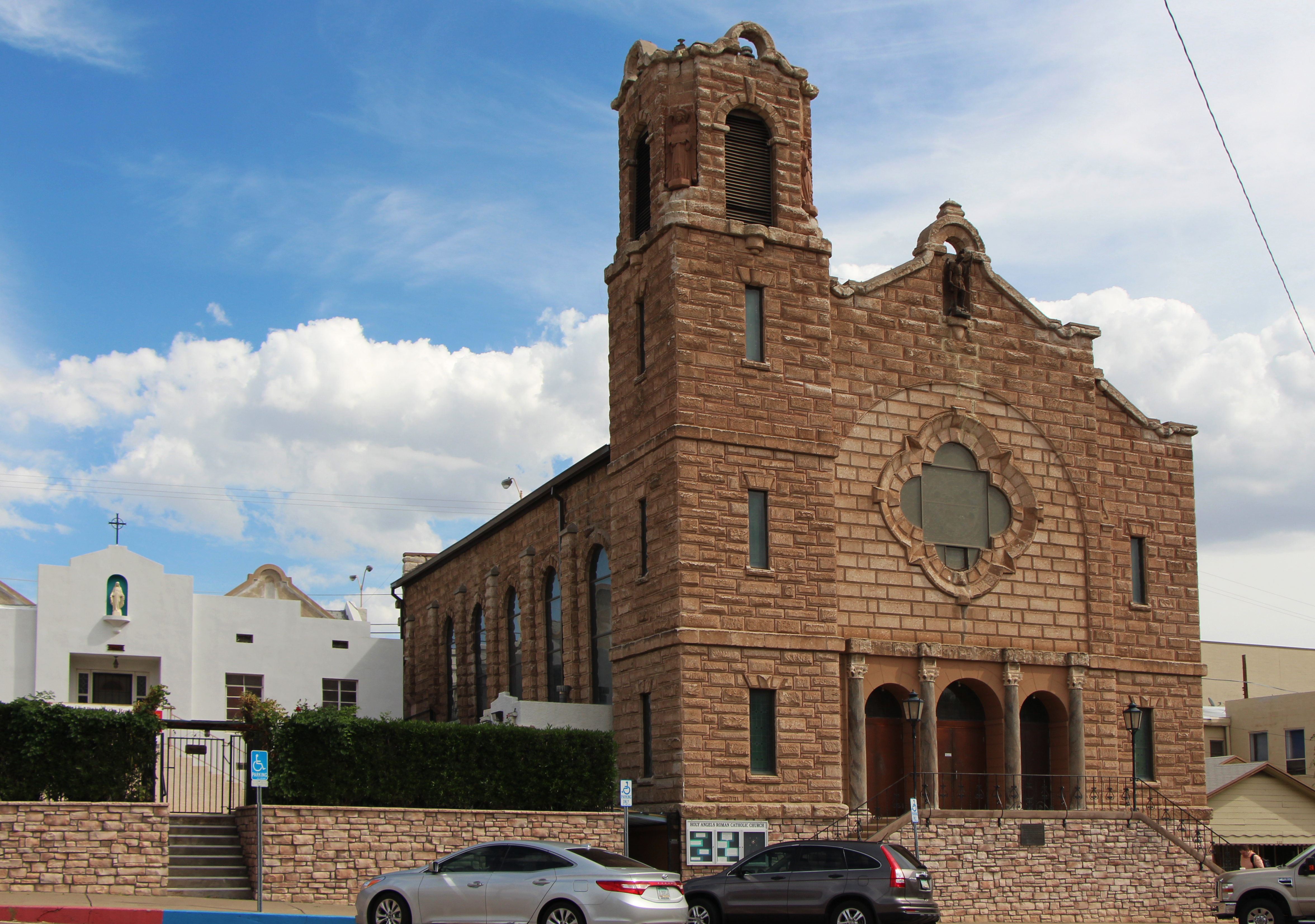 Holy Angels Church and Rectory, southeast corner of Broad Street and Sycamore Street, Globe, AZ